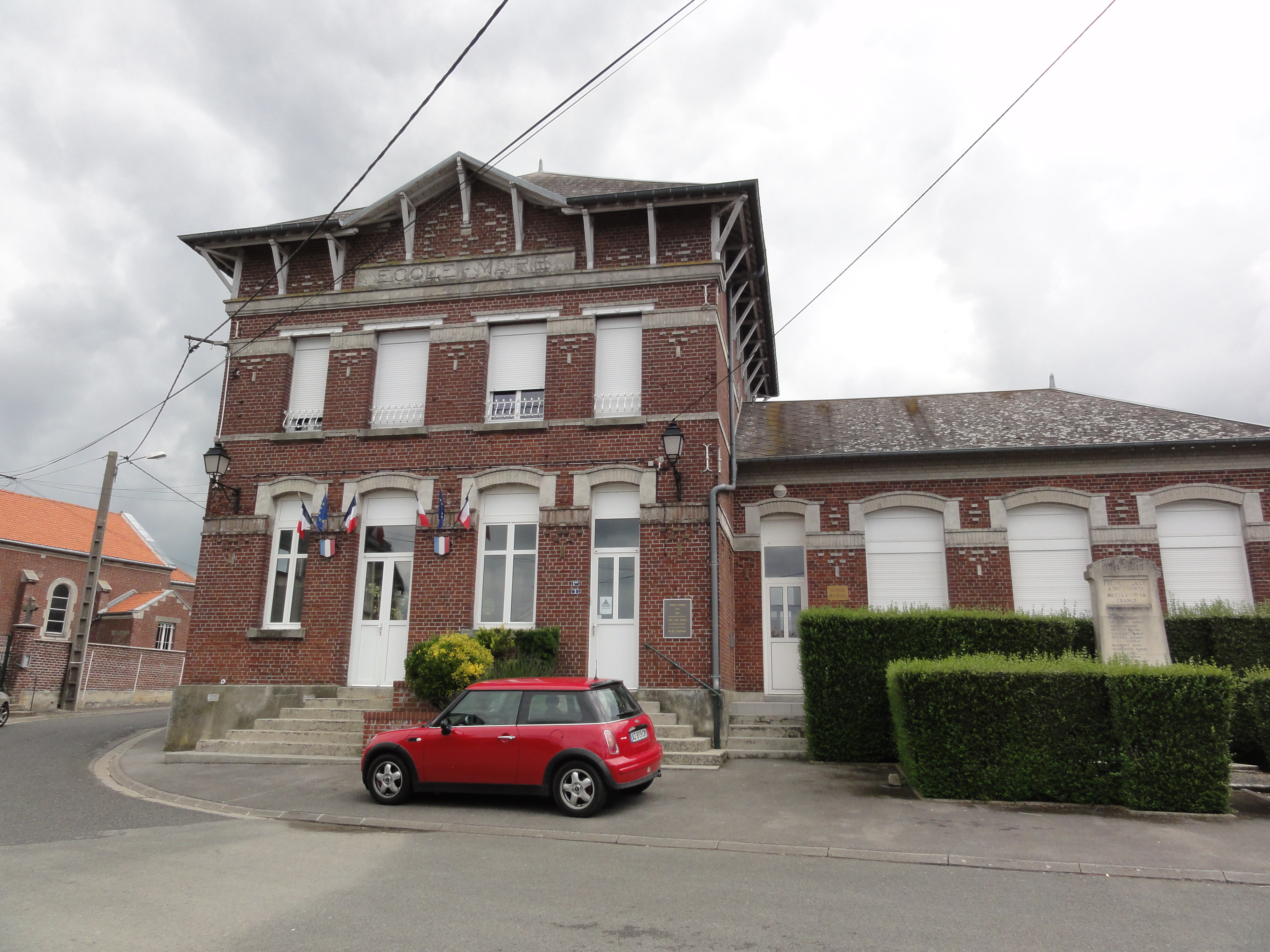 Fresnes-sous-Coucy (Aisne) mairie